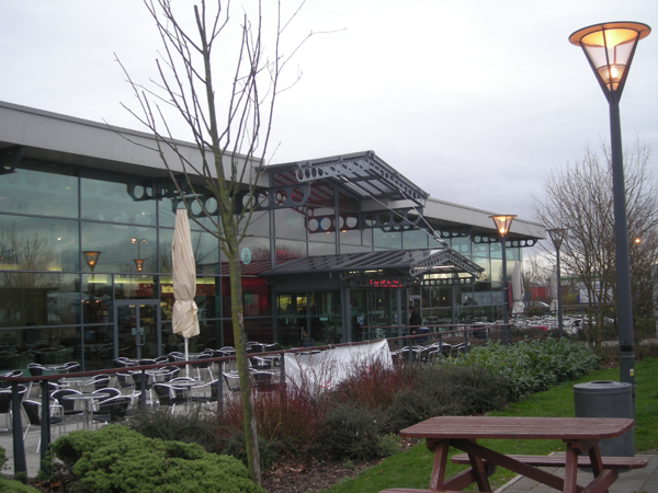 Strensham Motorway Services (South Bound)